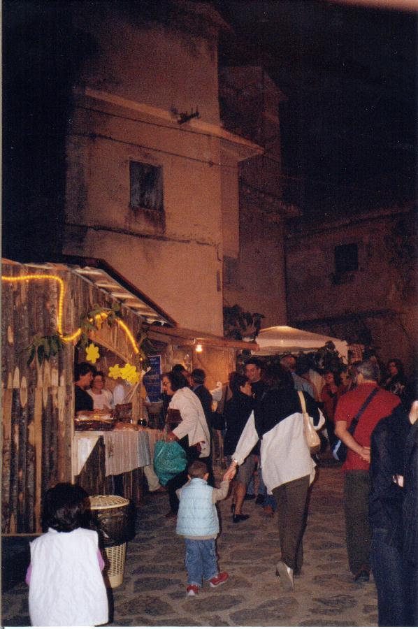 Author: Trond Ramsvik